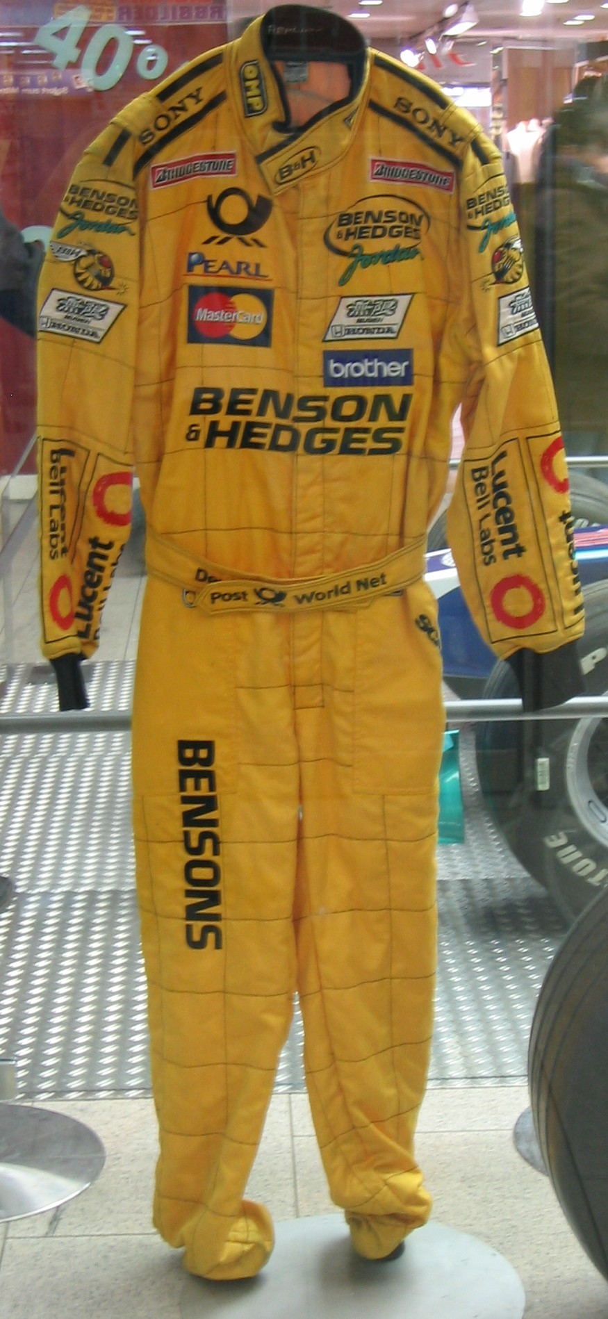 Overall of Jordan Grand Prix during an exhibition in a shopping center.